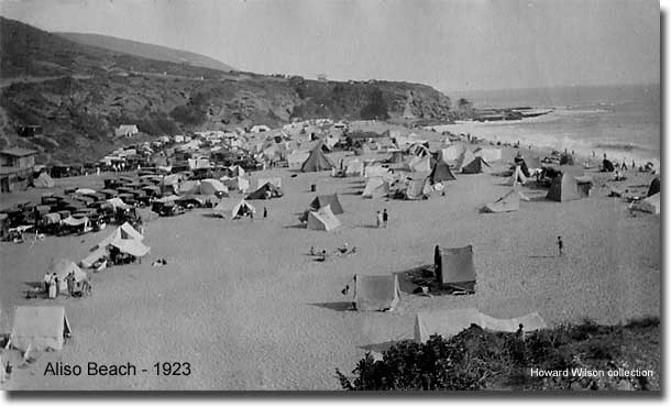 Campground at Aliso Beach, South Laguna, 1923.